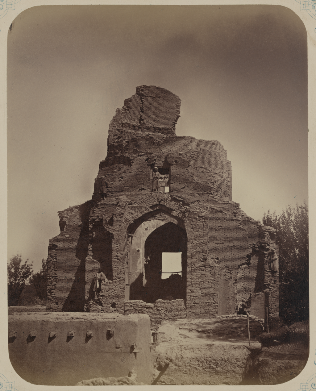 This photograph of the Bibi Khanym mausoleum in Samarkand (Uzbekistan) is from the archeological part of Turkestan Album. The six-volume photographic survey was produced in 1871-72 under the patronage of General Konstantin P. von Kaufman, the first governor-general (1867-82) of Turkestan, as the Russian Empire’s Central Asian territories were called. The album devotes special attention to Samarkand’s Islamic architecture, such as 14th- and 15th-century monuments from the reign of Timur (Tamerlane) and his successors. The mausoleum was built at the same time as the nearby main mosque (1399-1405) and like the mosque was named in homage to Timur’s senior wife, Sarai Mulk Khanym, (bibi being “lady” or “mother”). Indeed, the structure appears to have been connected to the mosque by a long passageway. The mausoleum is thought to have served not only as the burial shrine for Sarai Mulk Khanym, but also for other women of the ruling family. As with all monuments in the Bibi Khanym ensemble, the mausoleum suffered severe damage in this active seismic zone. This view shows fragments remaining of the pointed dome that arose over a cruciform plan within an octagonal structure. The surviving masonry walls of the mausoleum have also lost their original decorative patterns of ceramic tiles. In the foreground is a brick house with a flat roof supported by embedded log beams. Islamic architecture; Photographic surveys; Ruins; Sepulchral monuments; Tombs